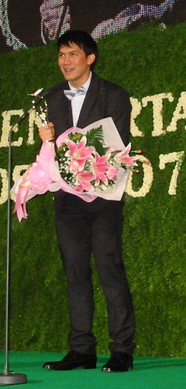 Ken Theeradej (ธีรเดช วงศ์พัวพัน) ,at Star Entertainment Awards 2007,receiving awards